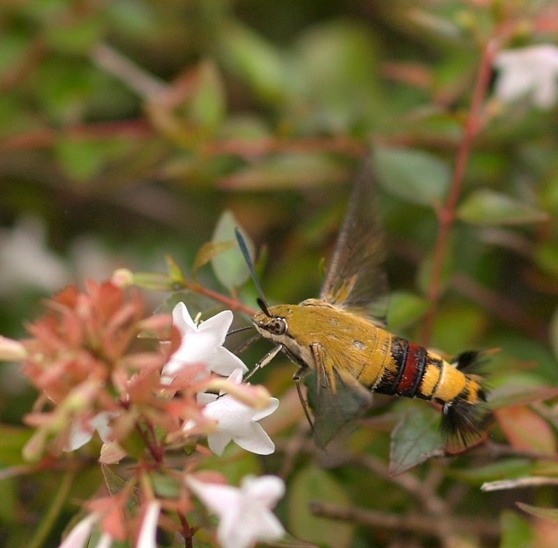 オオスカシバ en: Pellucid hawk moth (Cephonodes hylas L.), male